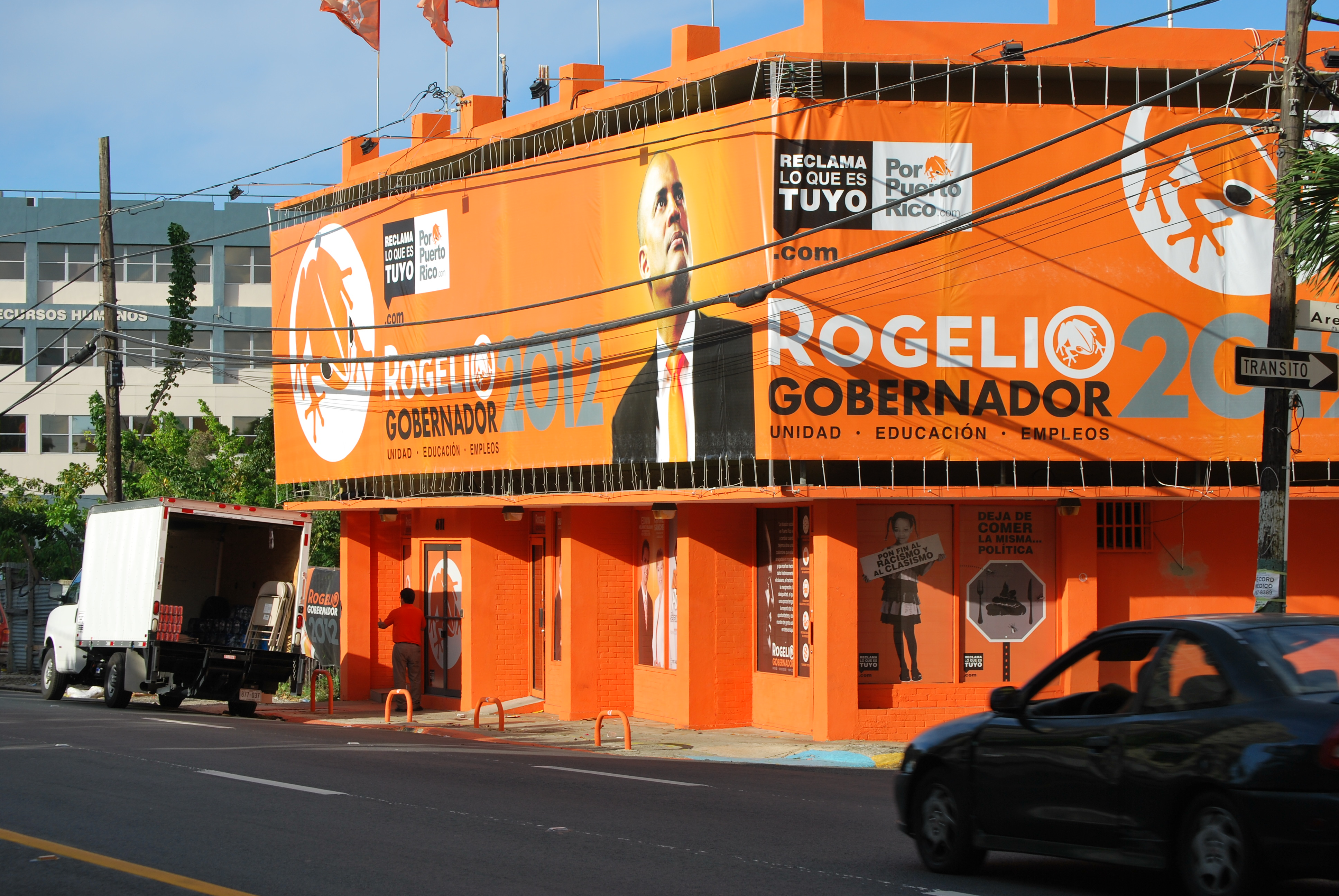 Puerto Ricans for Puerto Rico Party Headquarters in Hato Rey, 2012